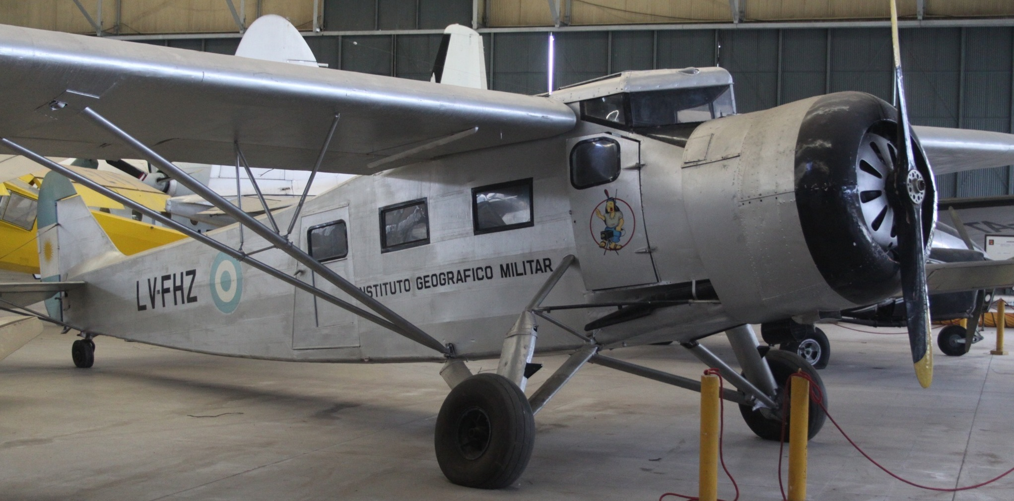 At Moron Museo Nactional De Aeronautica